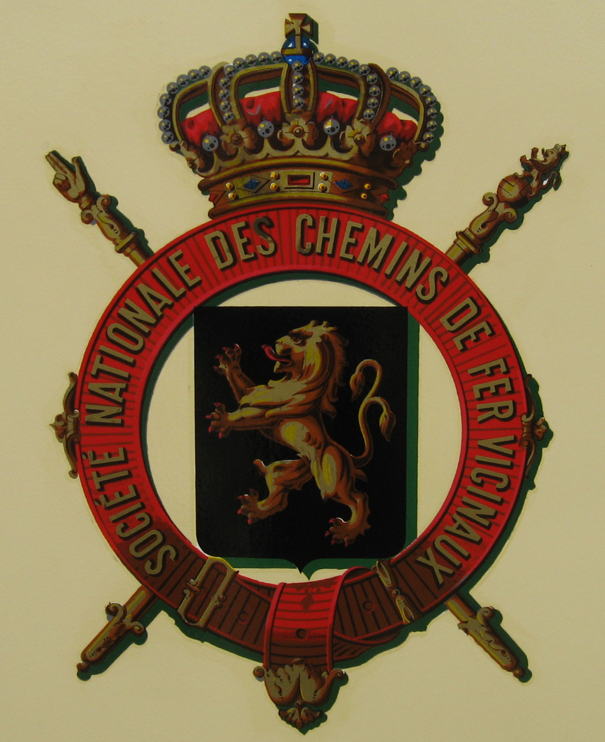 The SNCV vicinal logo placed on all trams.